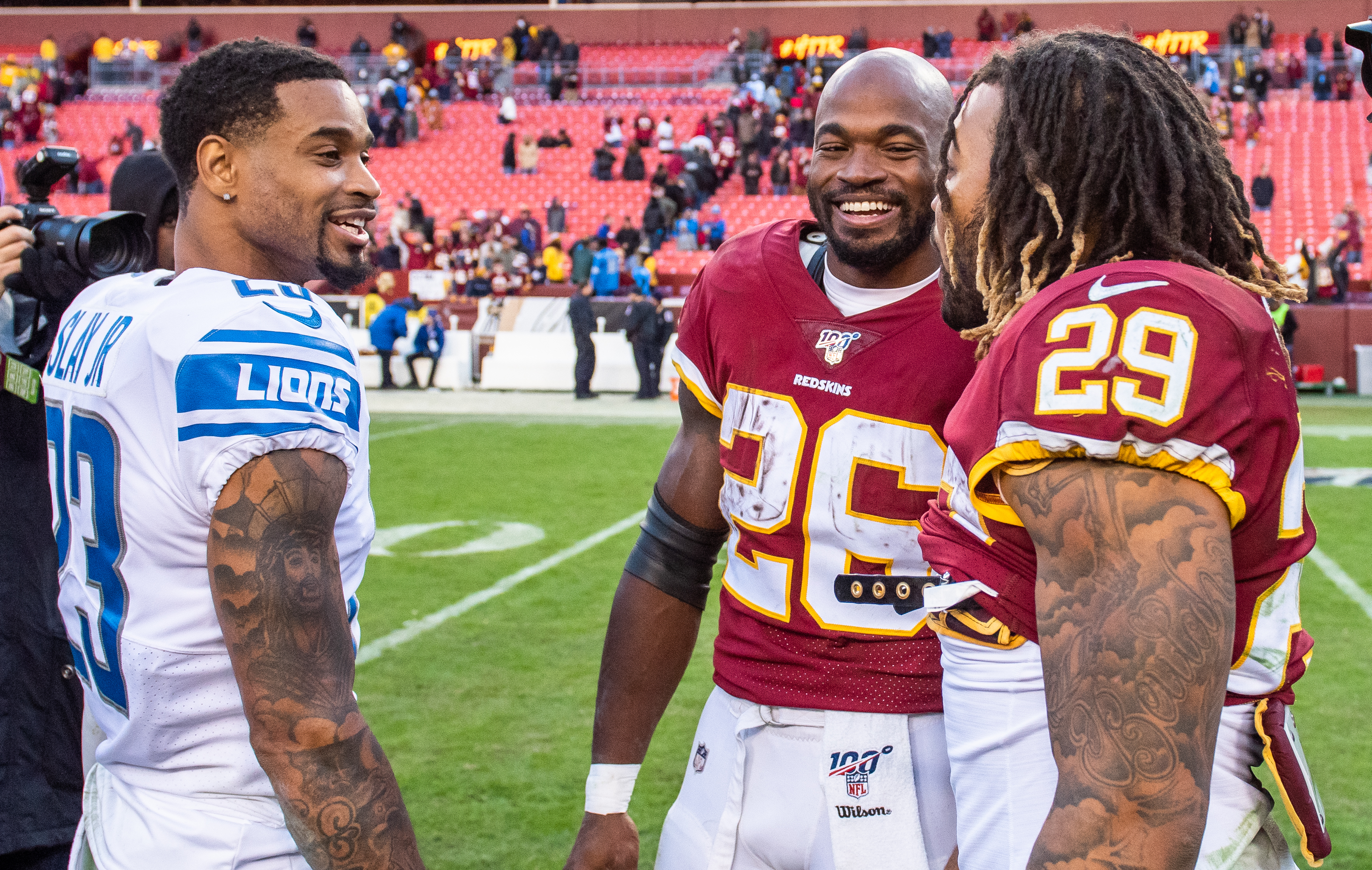 In 2019